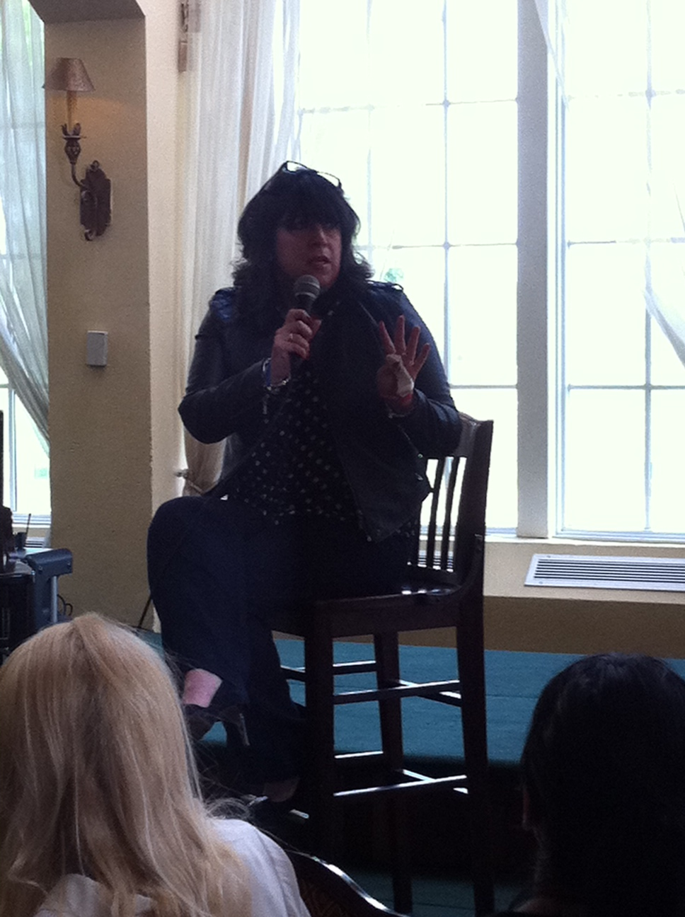 E. L. James, the author of Fifty Shades of Grey""